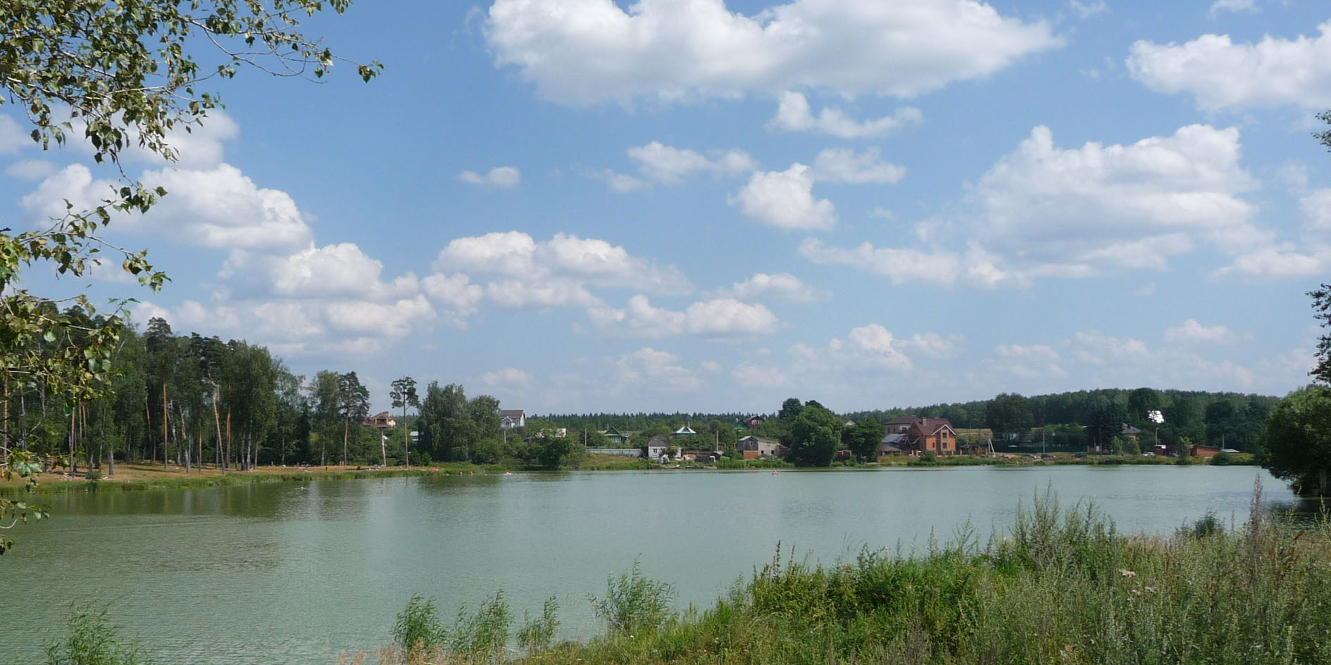 View on the village of Novaya Sloboda and Barsky ponds from the village of Staraya Sloboda. Shchyolkovsky district, Moscow oblast, Russia.